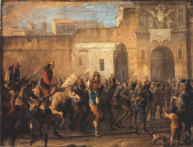 Punishment of the thefts at Masaniello's time.